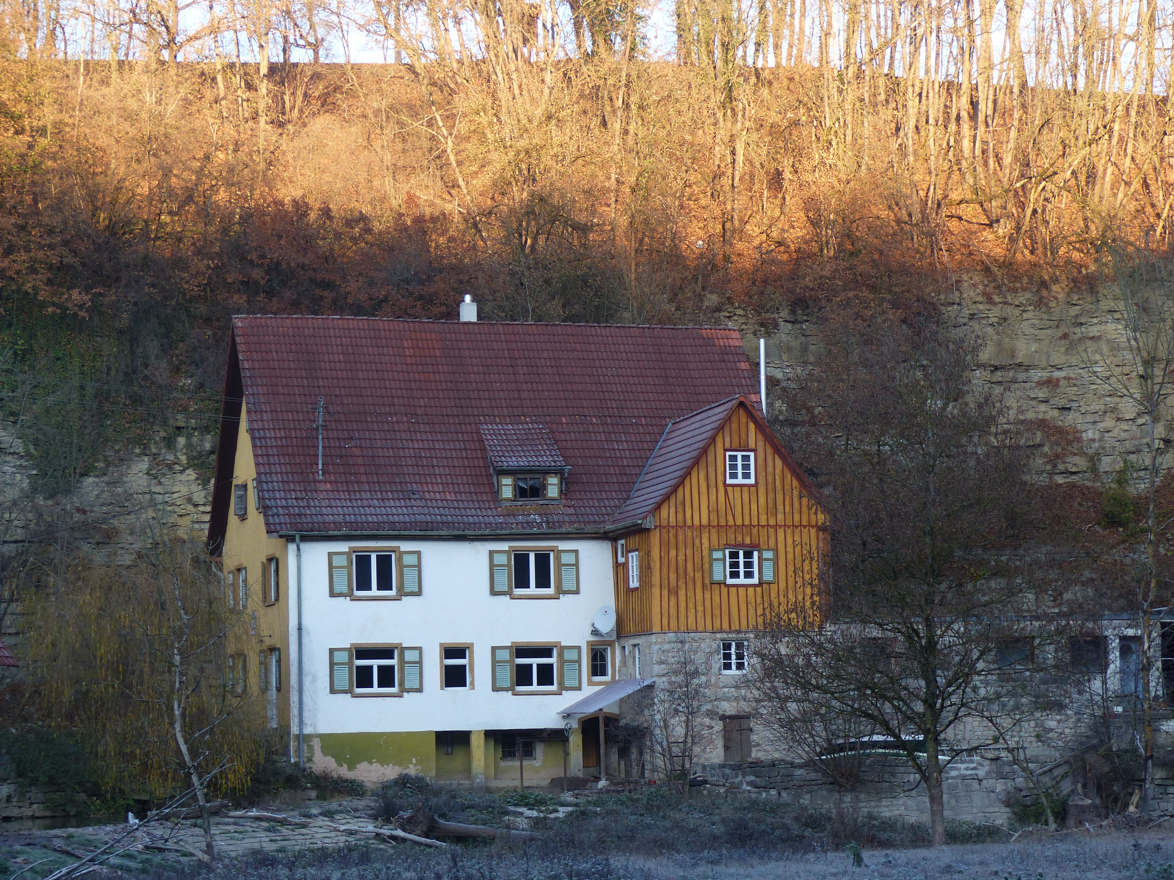 The smallholding Weidenhäuser Mühle, part of the town of Crailsheim